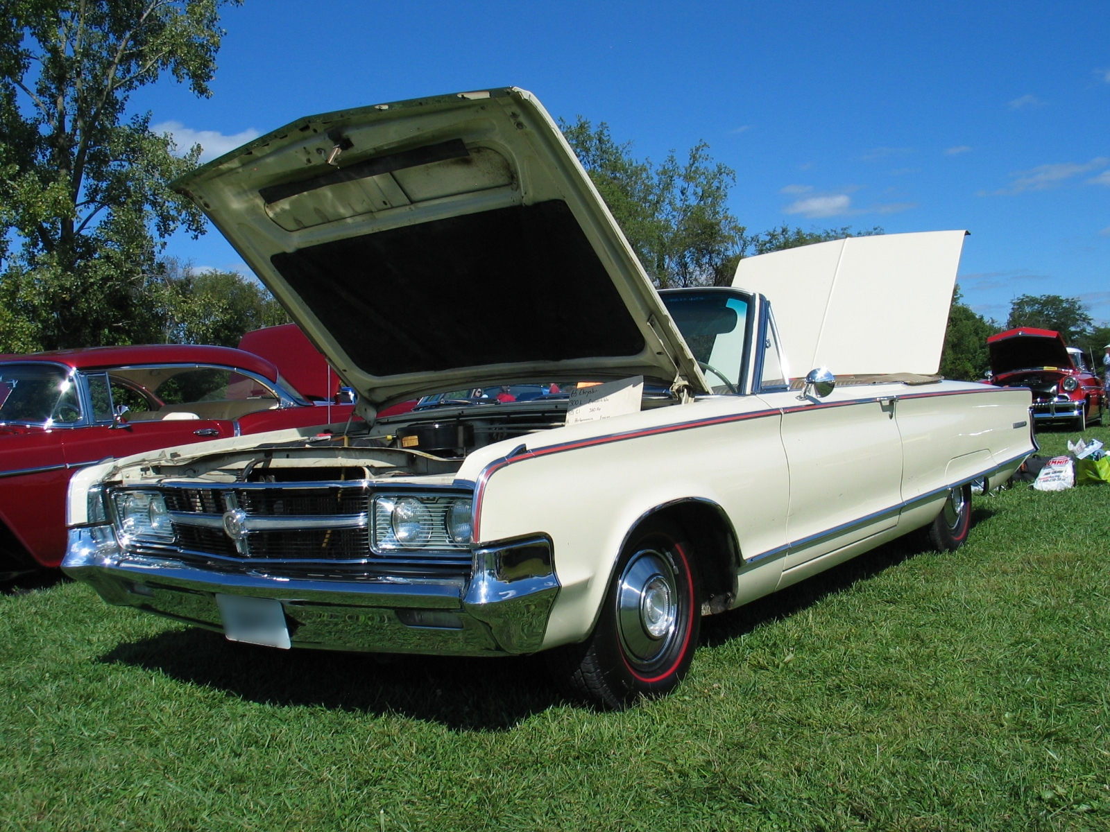 1965 Chrysler 300L convertible